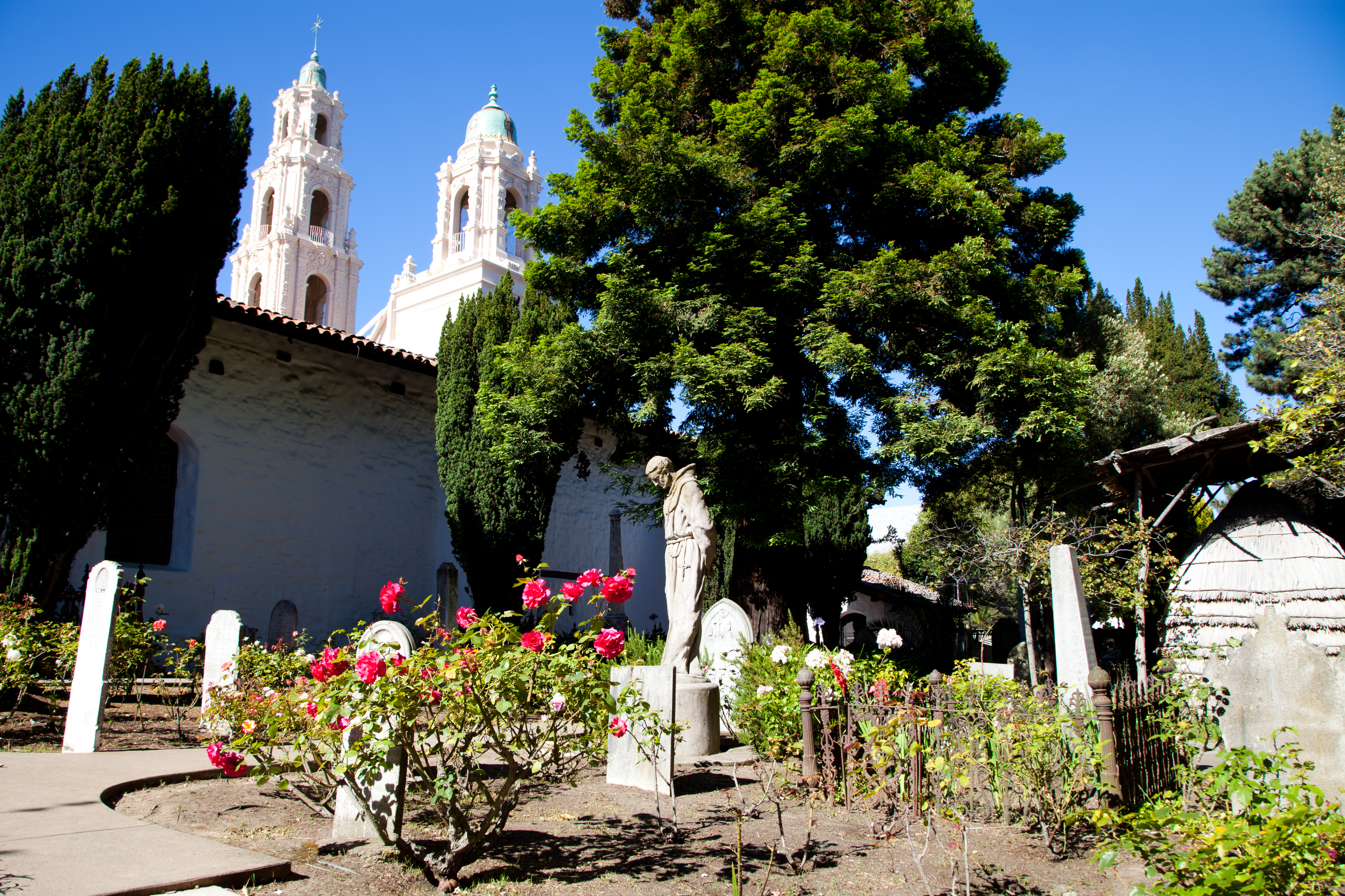 Mission Dolores